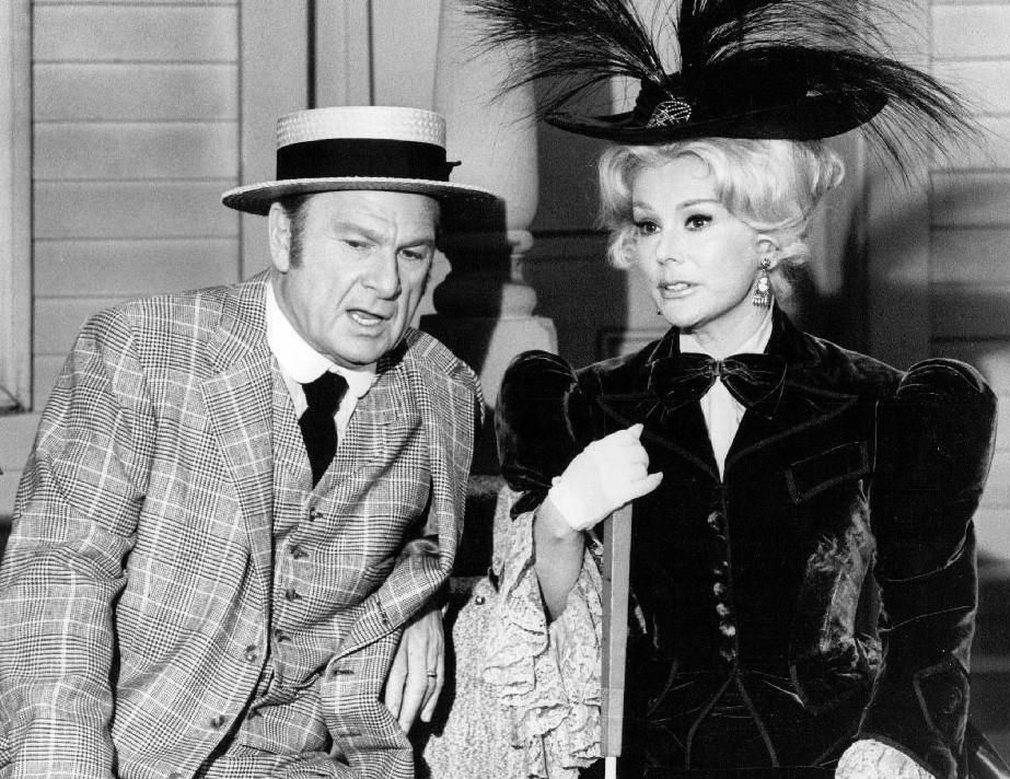 Photo of Eddie Albert and Eva Gabor from the television comedy Green Acres. This episode is "The Old Trunk" and it originally aired March 19, 1969.